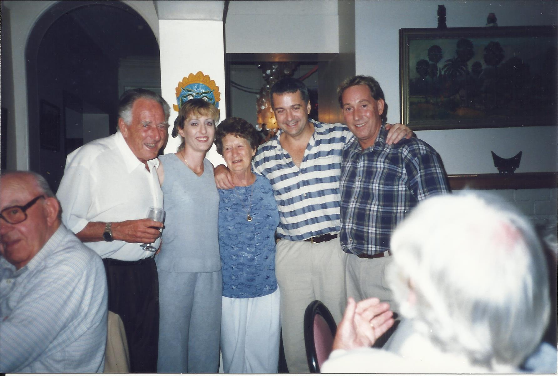 Dale Andrew Fisher with his family in Australia